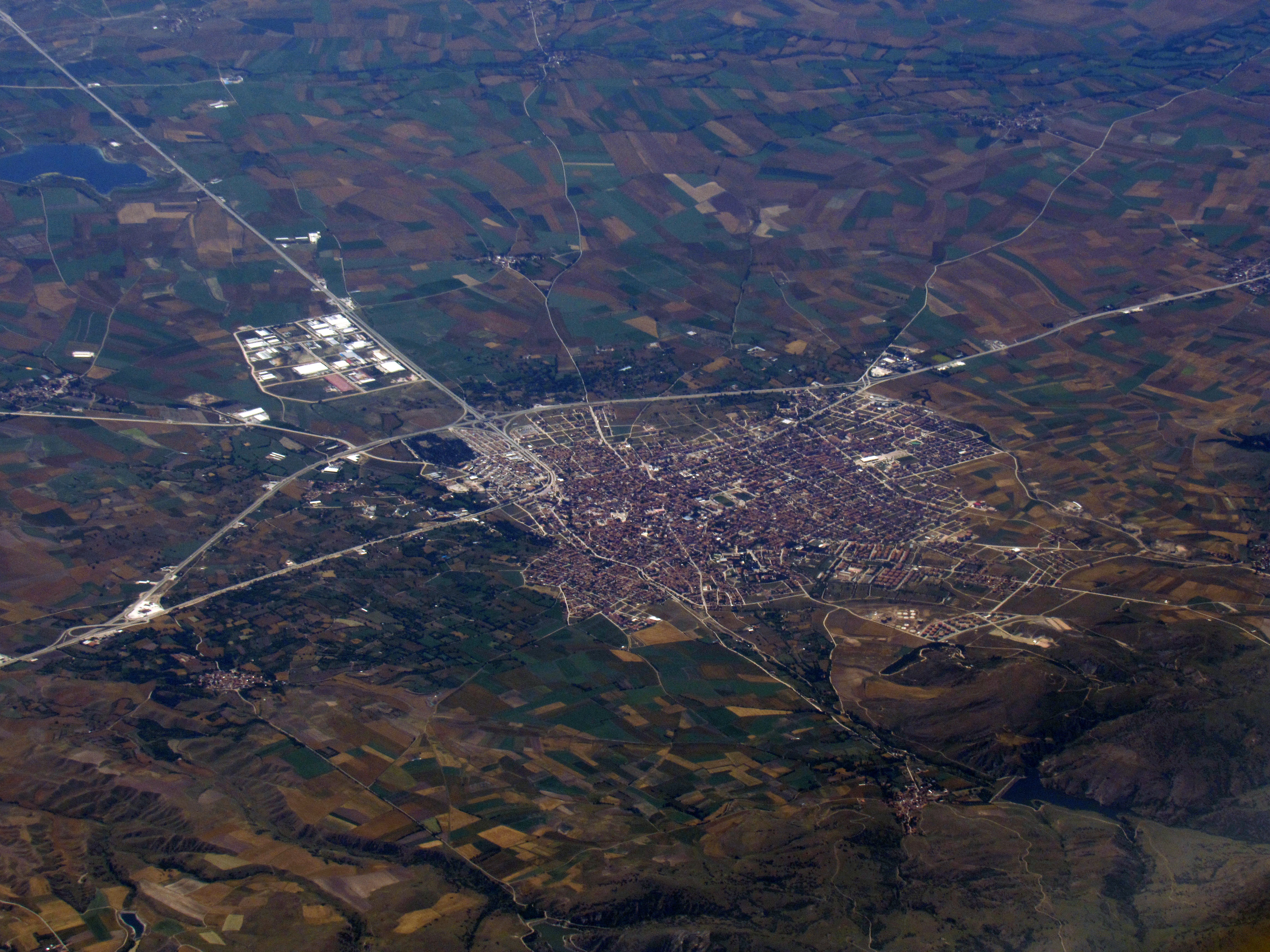 Aerial photograph of Merzifon, Turkey.